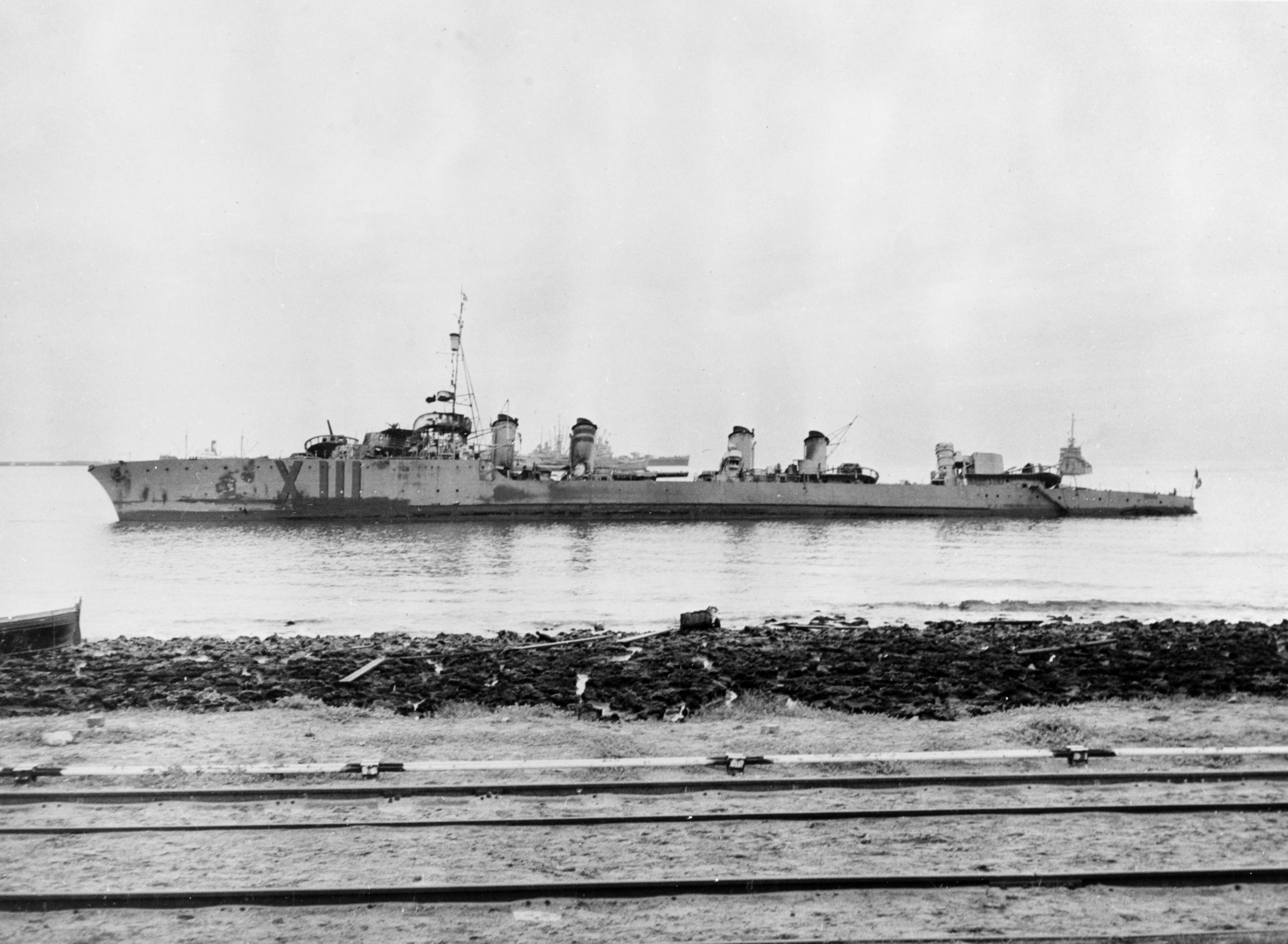 North African Invasion, November 1942: The French destroyer Milan beached off Casablanca, Morocco, on 4 December 1942. Badly damaged during the Battle of Casablanca on 8 November 1942, her forward superstructure is largely burned out. In the left distance is a French commercial freighter. U.S. Navy ships are in the center and right distance, among them a Brooklyn-class light cruiser and a Raven-Auk-class minesweeper. Note the railroad line in the foreground.